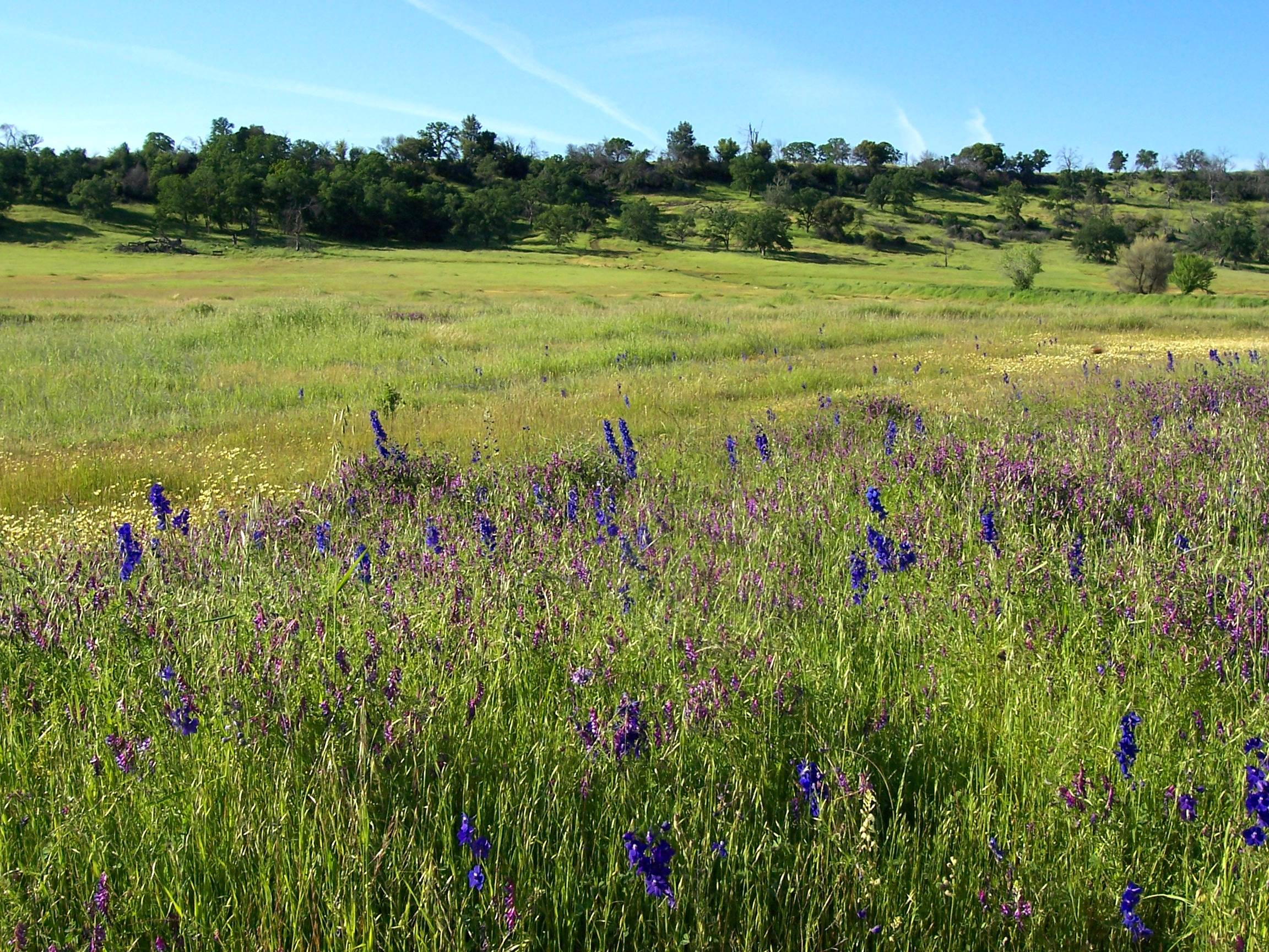 Upper Bidwell Park in Chico, CA. Photo by Emily Bryden, 2005.